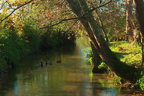 Roggia Pallavicina in Madignano (Italy)